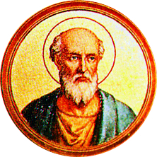 Portrait of Pope Evaristus un the Basilica of Saint Paul Outside the Walls, Rome